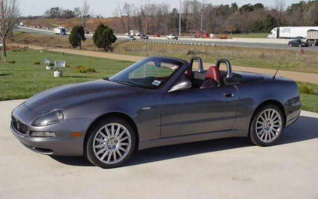 2002 Maserati Spyder GT Photographed in Charlotte, NC.